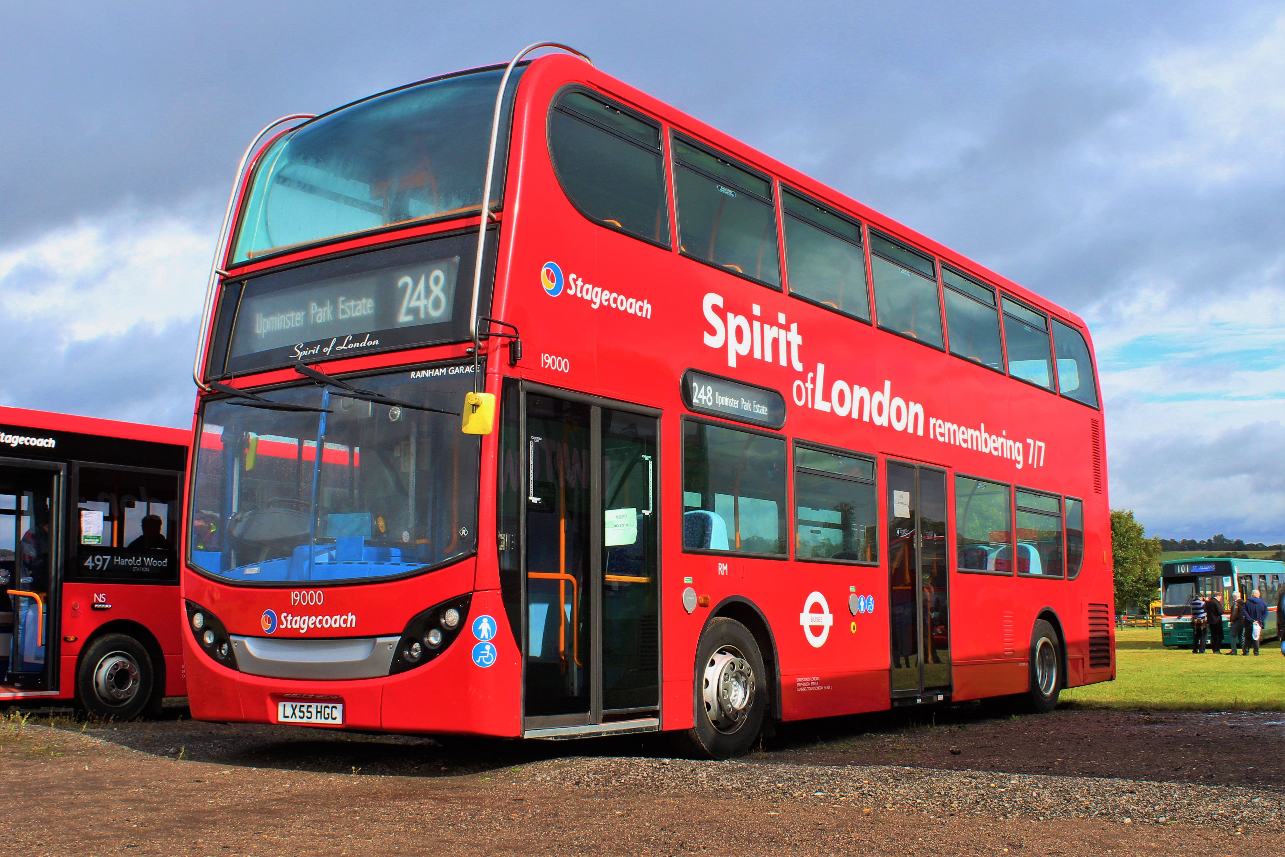 Preserved Stagecoach London Alexander Dennis Enviro400 LX55 HGC (19000) "Spirit of London" attending Showbus in 2019. The vehicle was built in 2005 to replace the bus destroyed in the 7/7 bombing attacks, during which 13 passengers on a bus travelling through Tavistock Square were killed.